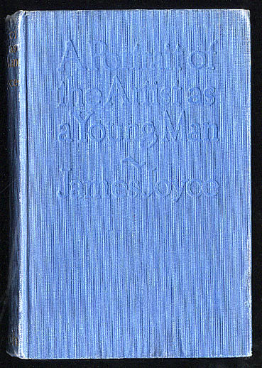 Cover of the first U.S. book edition of James Joyce's A Portrait of the Artist as a Young Man, B.W. Huebsch, 1916. Having been published before 1923, this work is and the photograph of this work is not eligible for copyright in the U.S. (and many other countries) as a simple reproductive photograph of the two-dimensional cover (c.f. Bridgeman Art Library v. Corel Corp.).